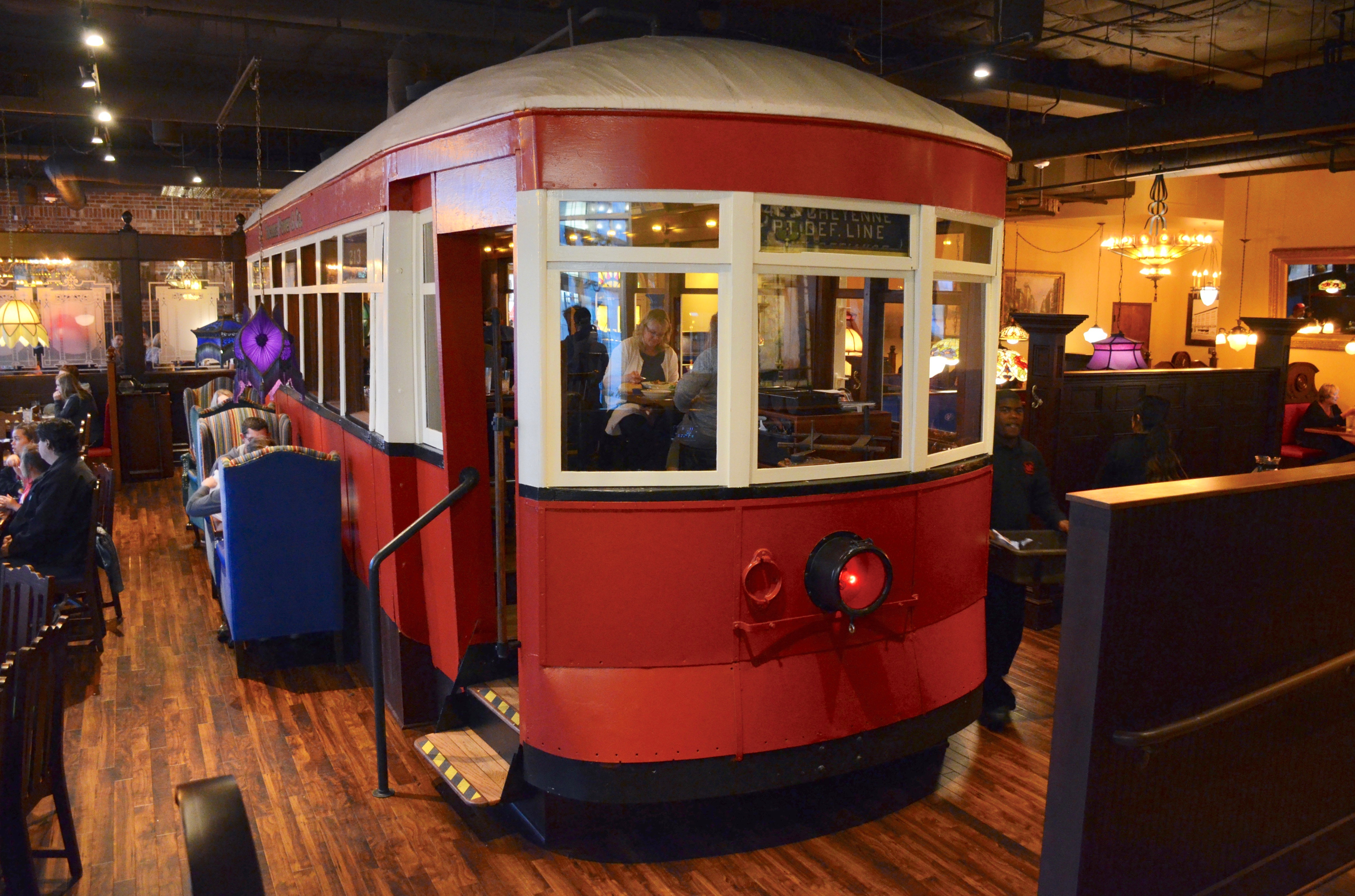 Former Tacoma Railway & Power Company streetcar 213 inside the Tacoma location of The Old Spaghetti Factory. Car 213 was built in 1914 by the St. Louis Car Company and was longer when it was in use as a streetcar (it was a double-truck car). It was shortened when modified for use in the restaurant, circa 1971. OSF's Tacoma restaurant opened in 1971 at a different location than shown here, and was the chain's third restaurant (after Portland and Seattle). It moved to its current location, shown here, in 2016.